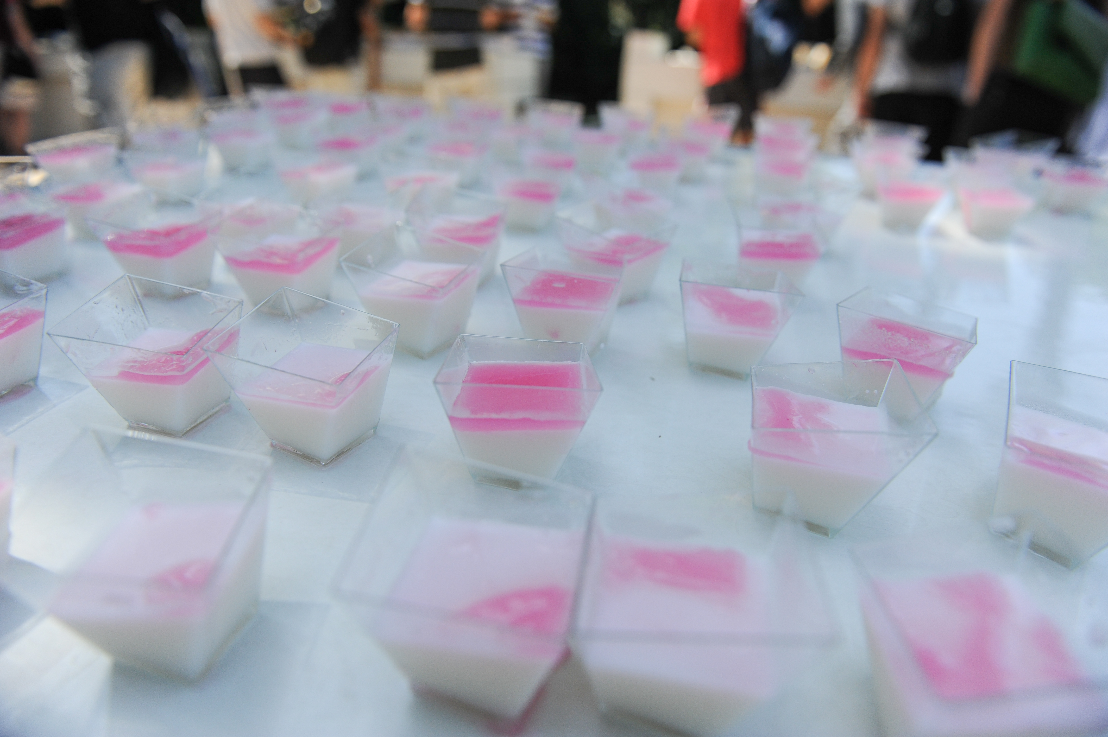 wikimania 2011 hackathon conference israel haifa hecht house מלבי